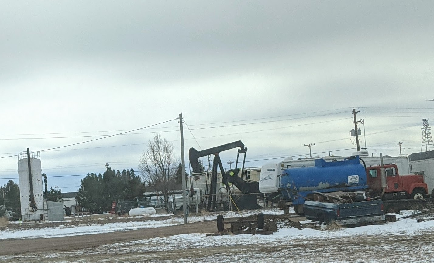 One of many oil wells in the town of Kimball, Nebraska